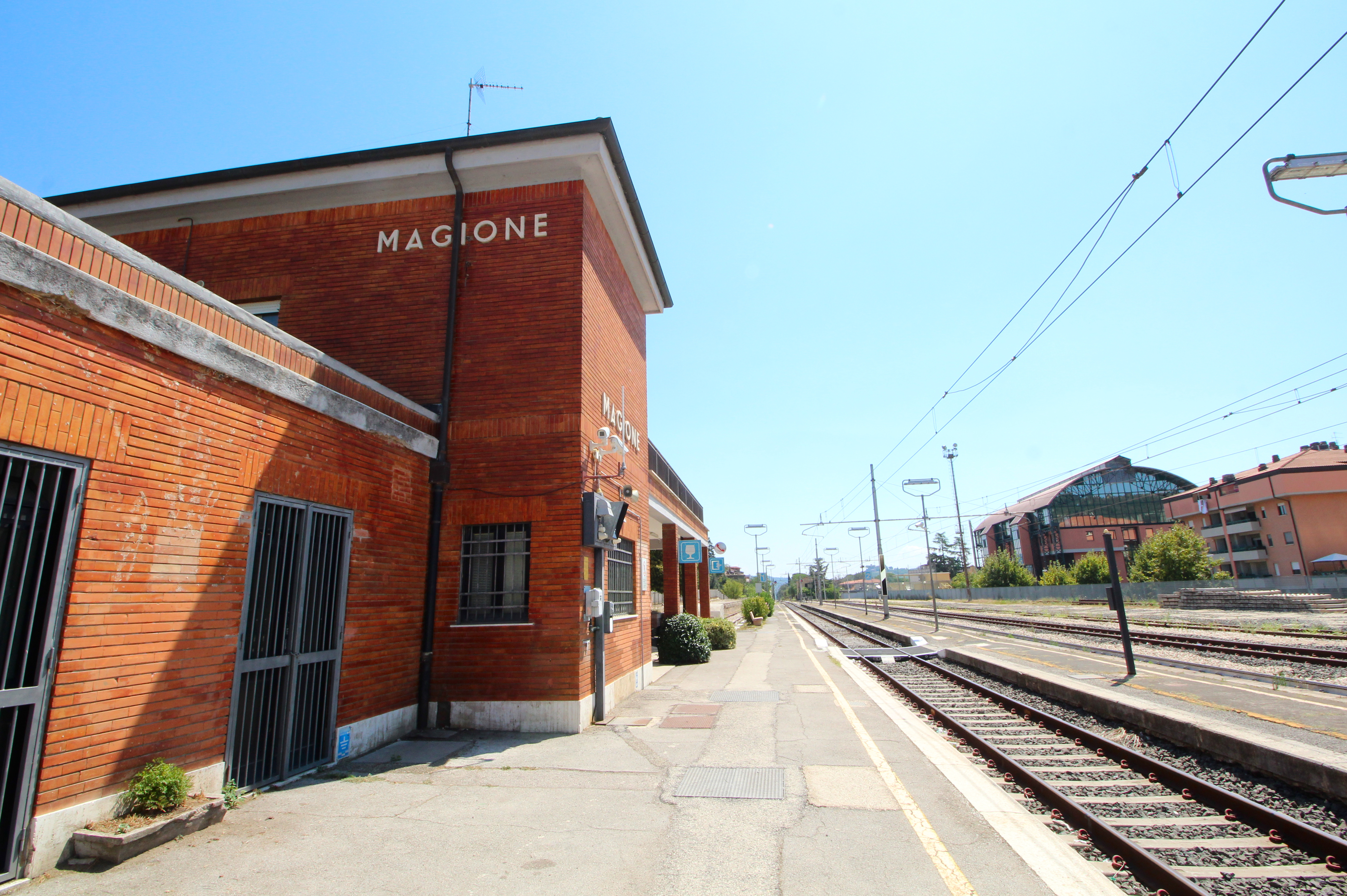 train station of Magione, Province of Perugia, Umbria, Italy